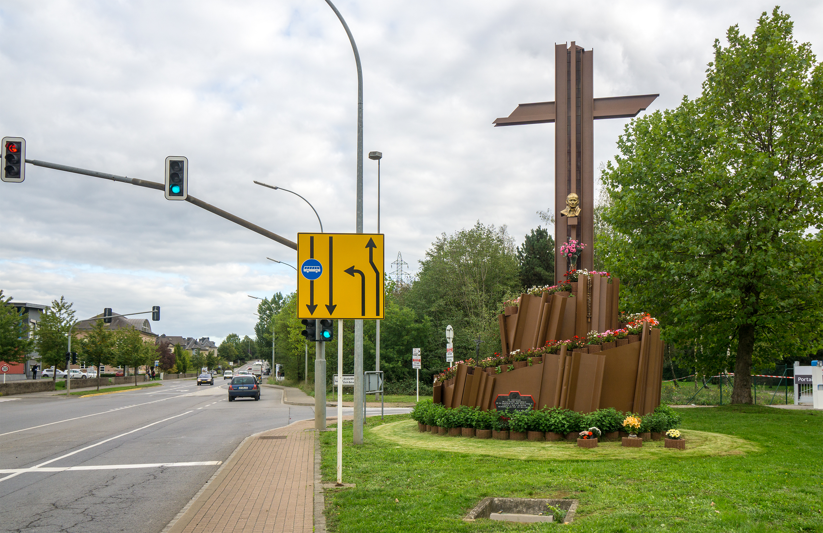 Memorial for the visit of pope Jean-Paul II in Esch-sur-Alzette on May 15, 1985